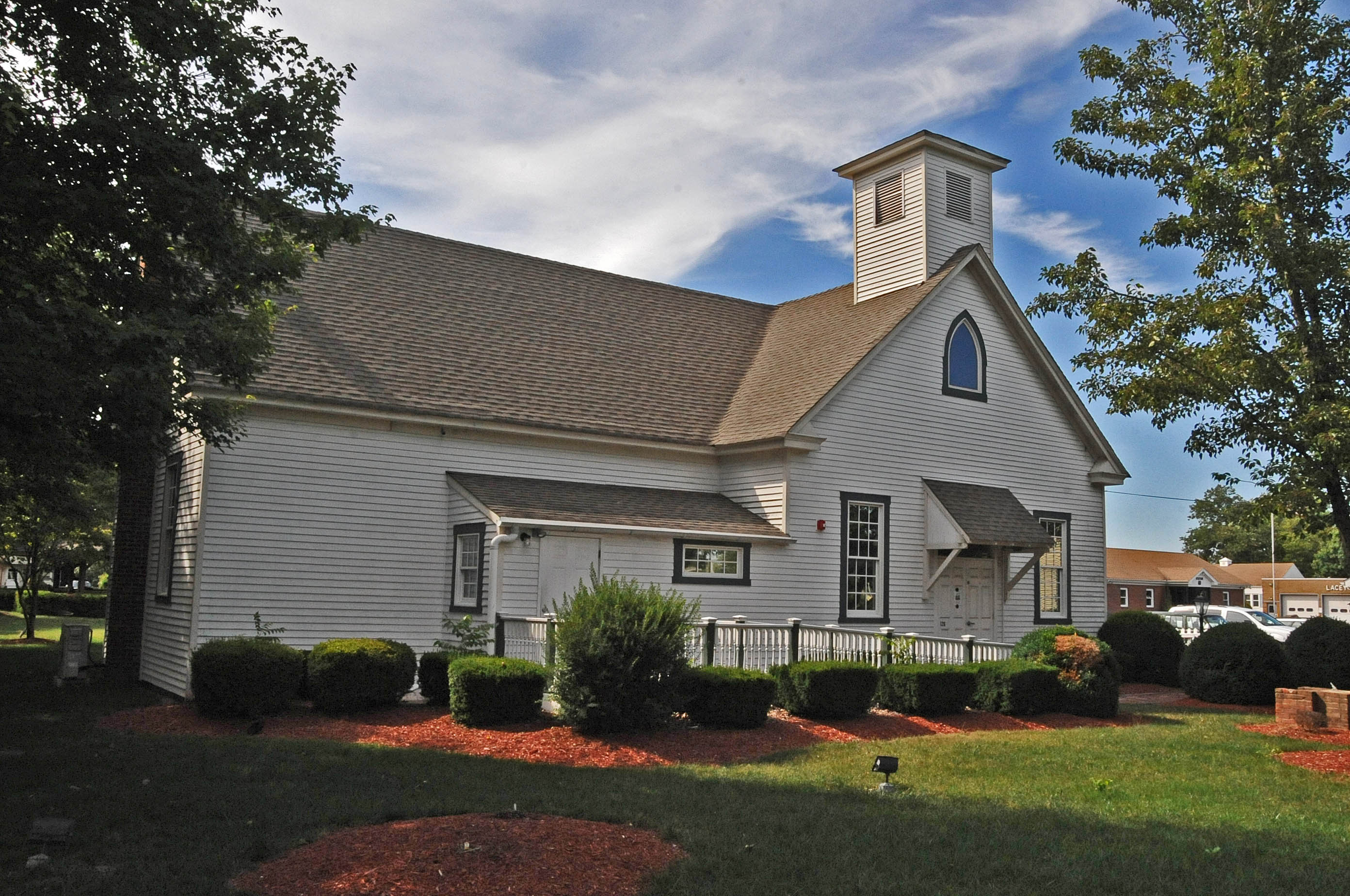 LACEY HISTORICAL MUSEUM LOCATED IN FORKED RIVER; ORIGINALLY BUILT IN 1860 AND ADDED TO IN 1884